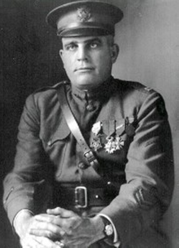 WWI Medal of Honor recipient George H. Mallon. He wears the Medal of Honor, the French Légion d'honneur in the degree of Chevalier, the French Croix de guerre with bronze palm, and the Philippine Campaign Medal. Note, too, the single wound chevron on his lower right sleeve.